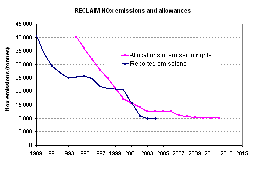 NOX Emissions and allocations in the RECLAIM emission trading program. Chart made based on data from